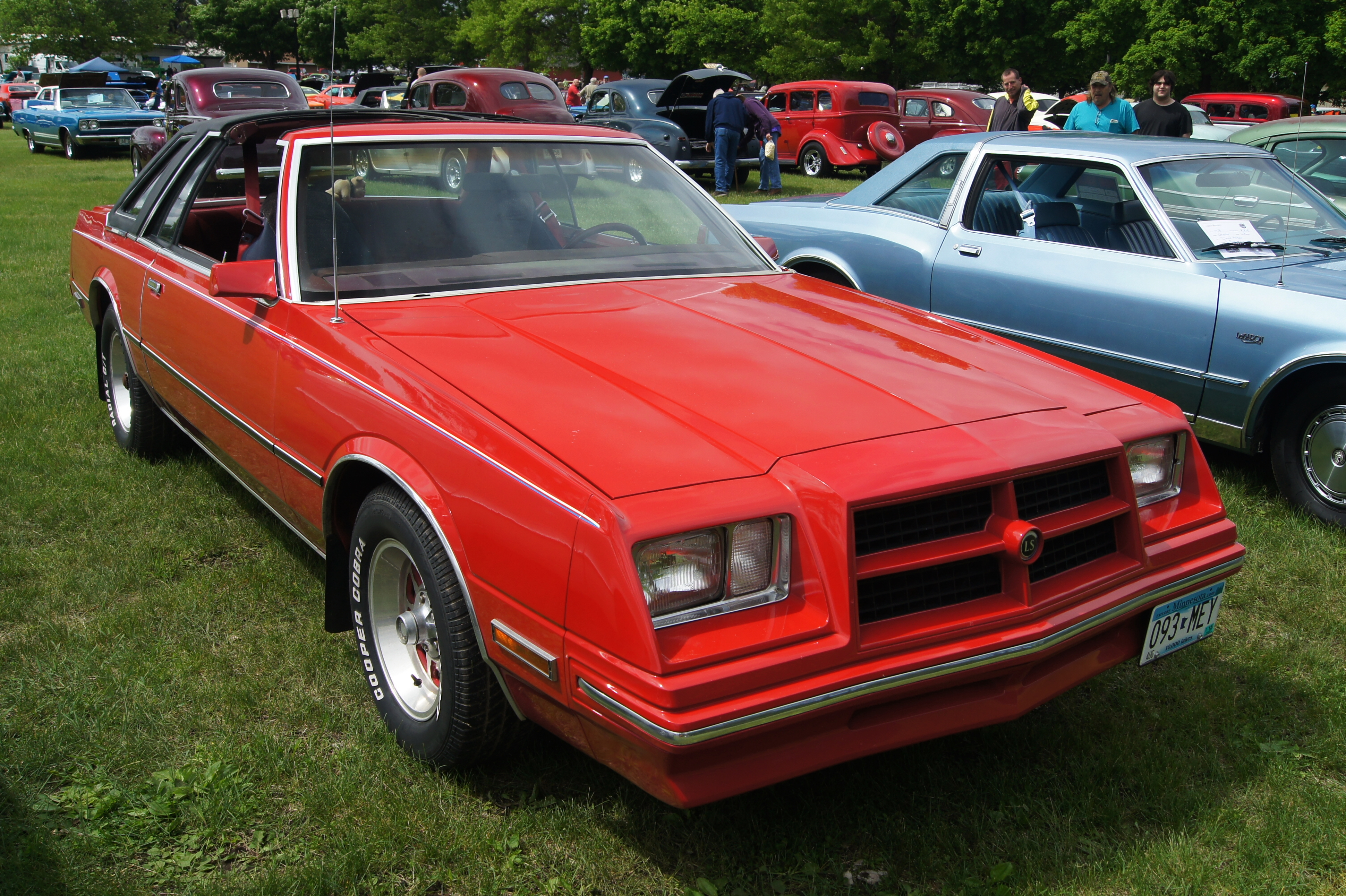 Midwest Mopars in the Park National Car Show & Swap Meet Dakota County Fairgrounds Farmington, Minntesota May 30 & 31, 2015 Click here for more car pictures at my Flickr site.